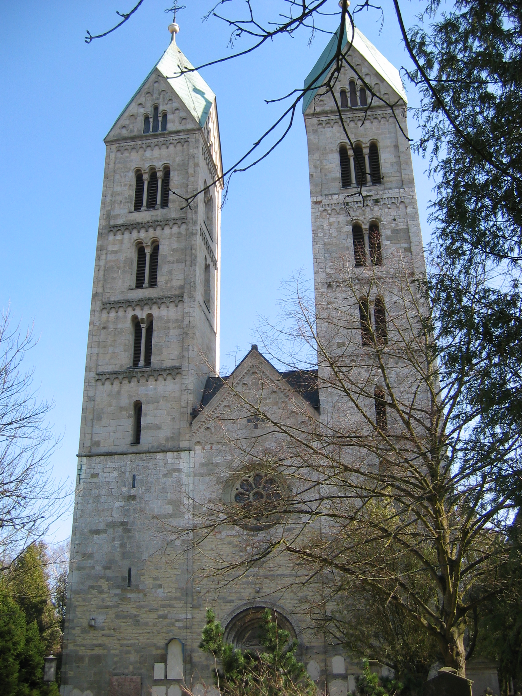 St. Peter, Straubing, from the west.